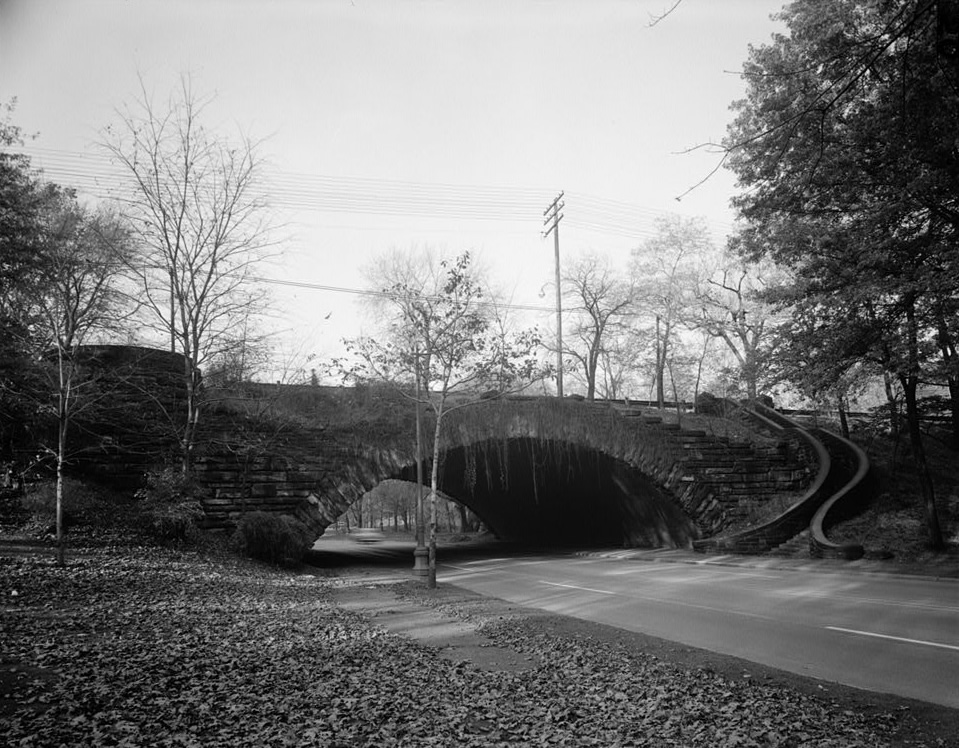 Wade Park Avenue Bridge over Liberty Boulevard (Now Martin Luther King Boulevard) in Rockefeller Park. Charles Schweinfurth, architect.